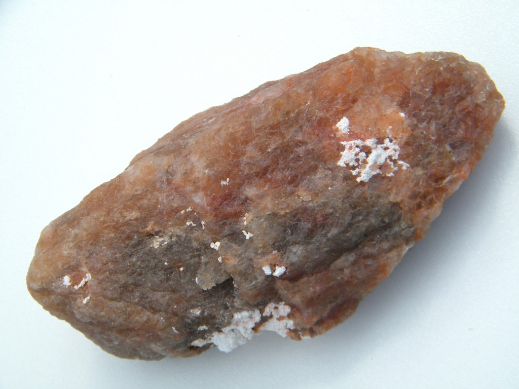 Langbeinite (Dimensions: 4" x 2.5" x 2.5" ) Locality: Carlsbad Potash District, Eddy and Lea Counties, New Mexico, USA Loaf of salmon colored langbeinite.